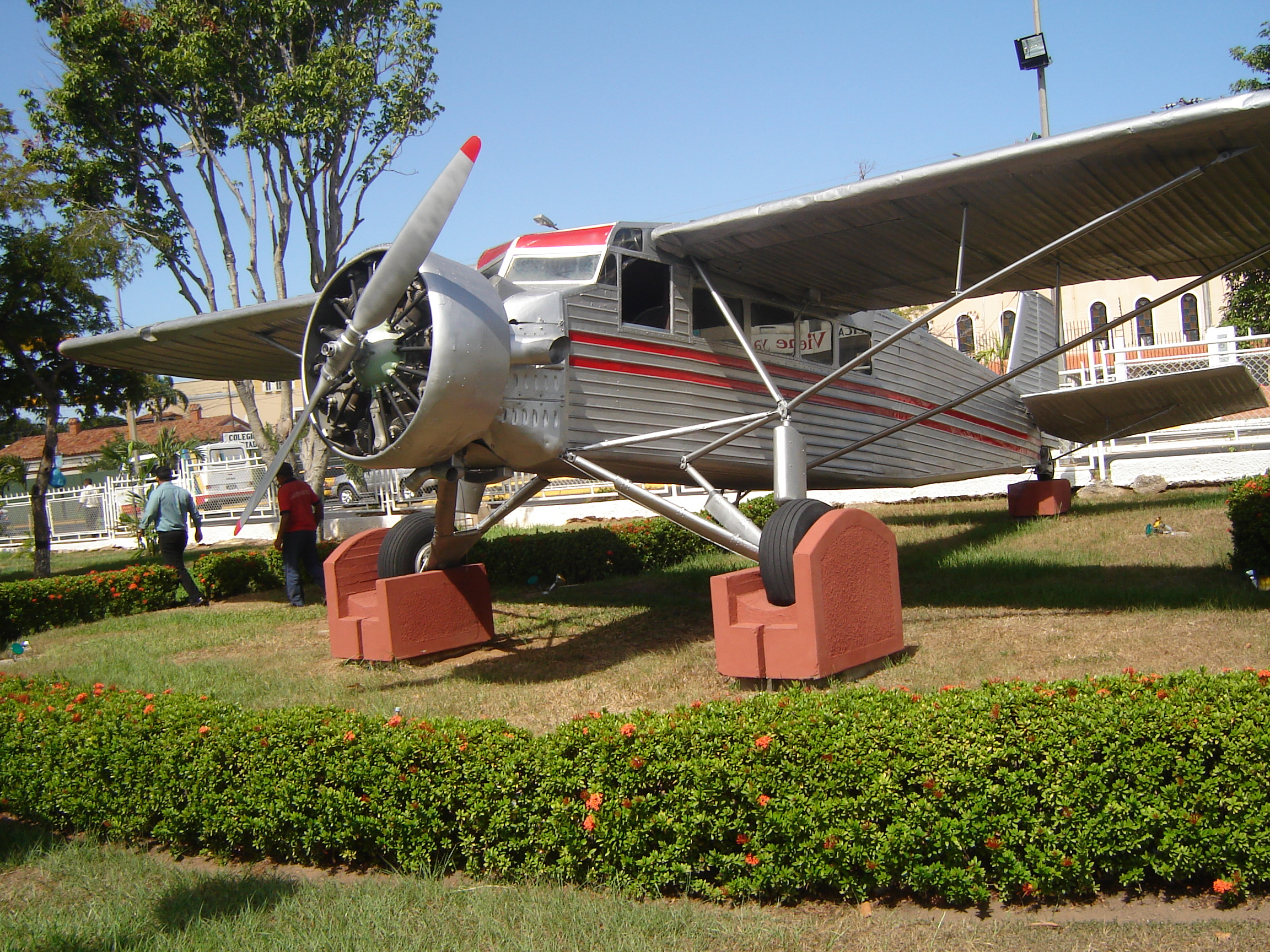 Jimmy Angel´s original plane, at the José Tomás de Heres airport.